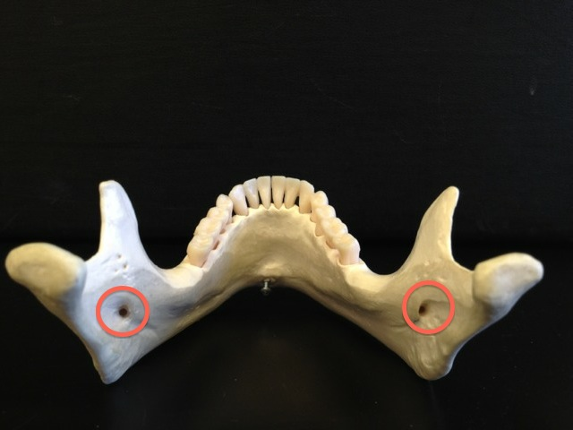 A posterior view of a model of a human mandible, highlighting the mandibular foramina.